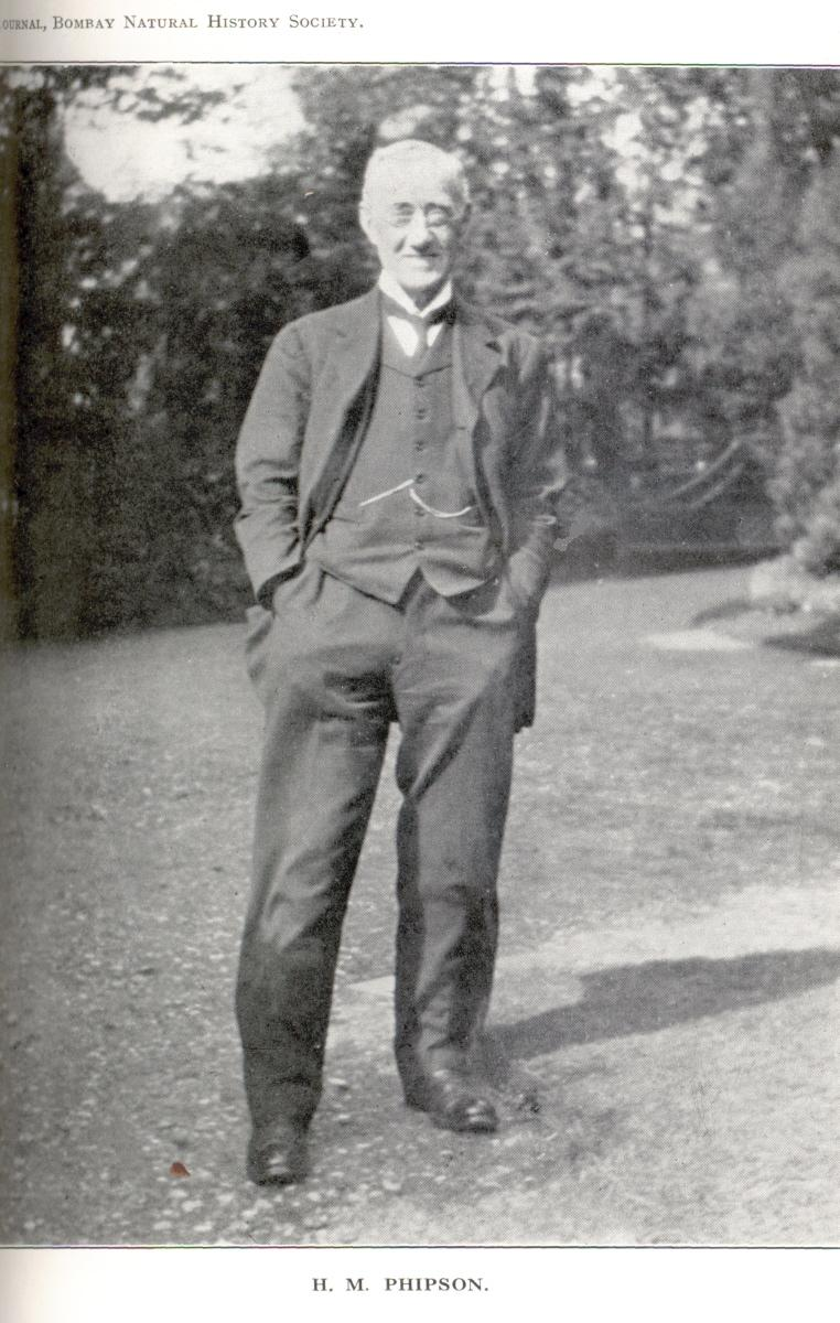 Image of H. M. Phipson from his Obituary, Journal of the Bombay Natural History Society, volume 34, 1936, pp. 152-154